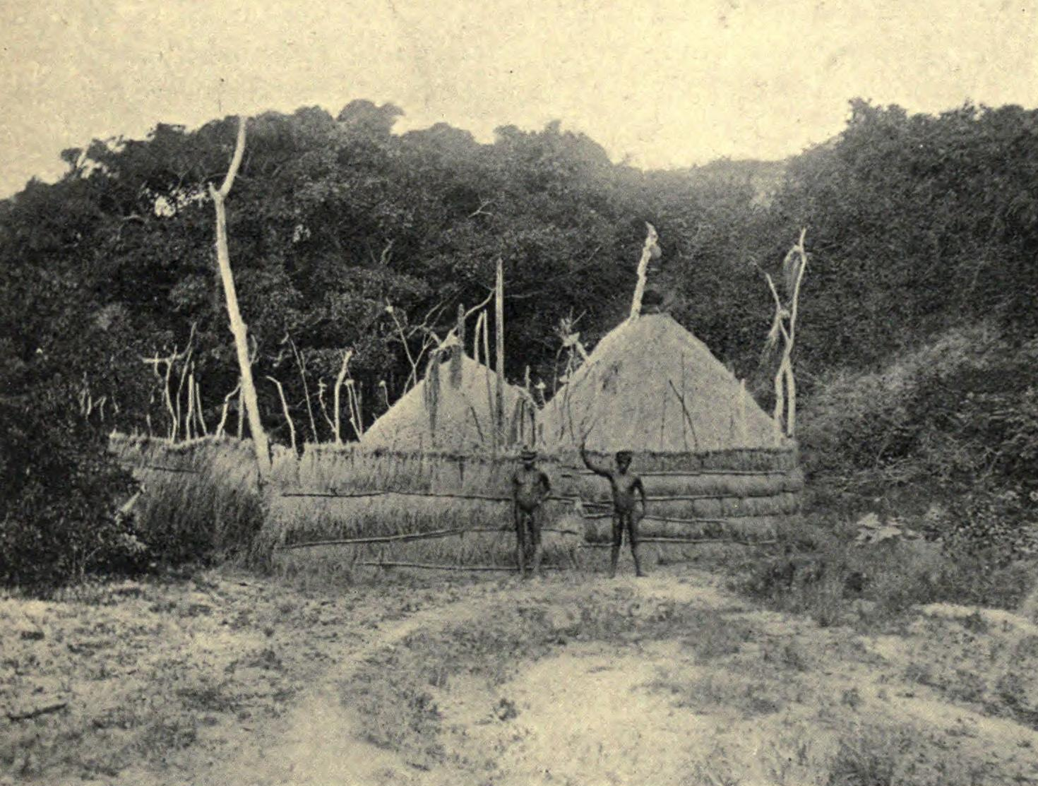 A New Caledonian Village Scene.